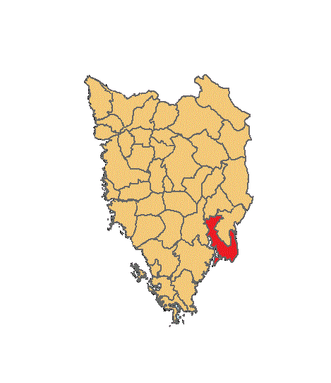 Raša's map